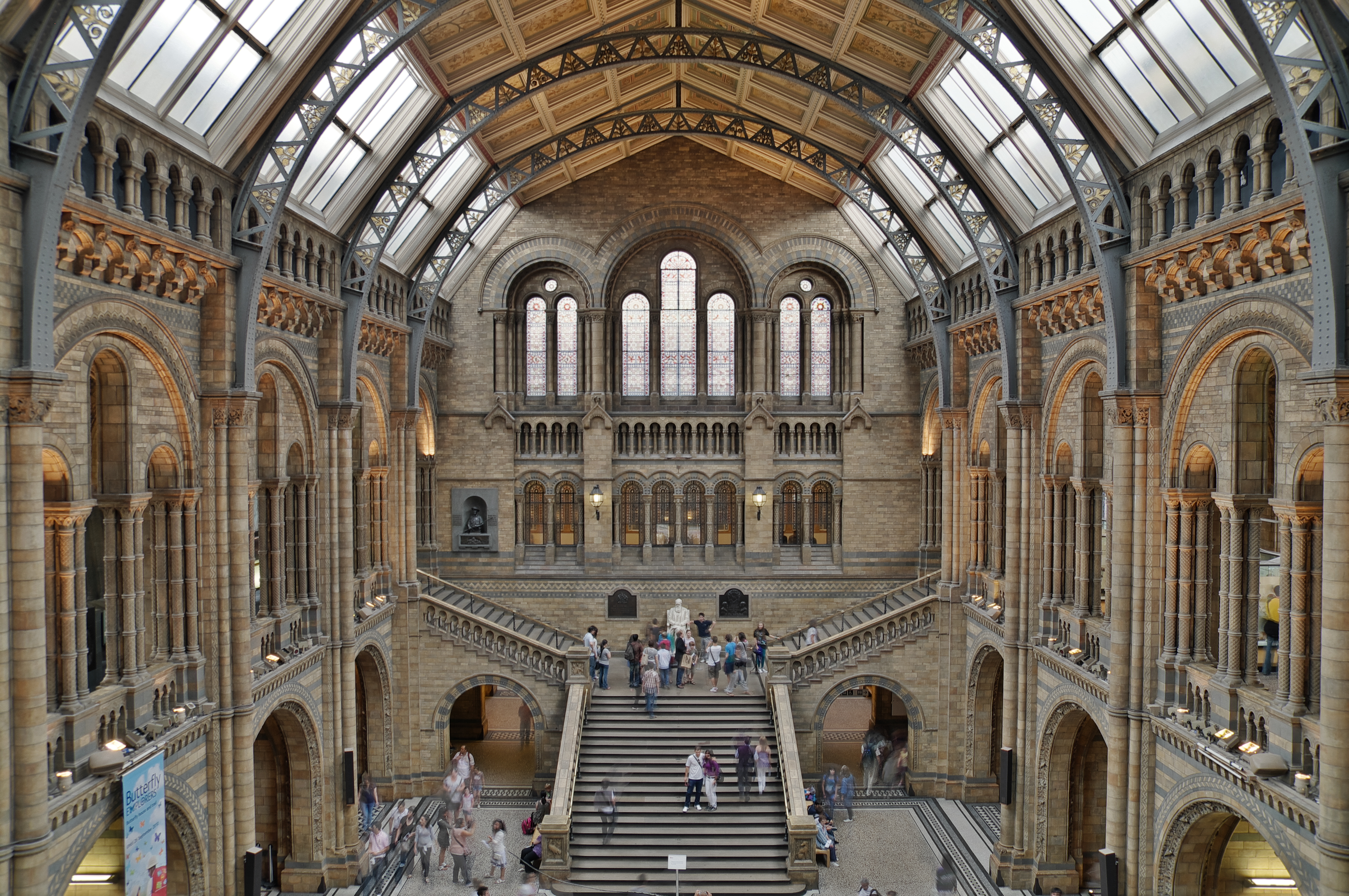 A view of the main gallery of Natural History Museum in London